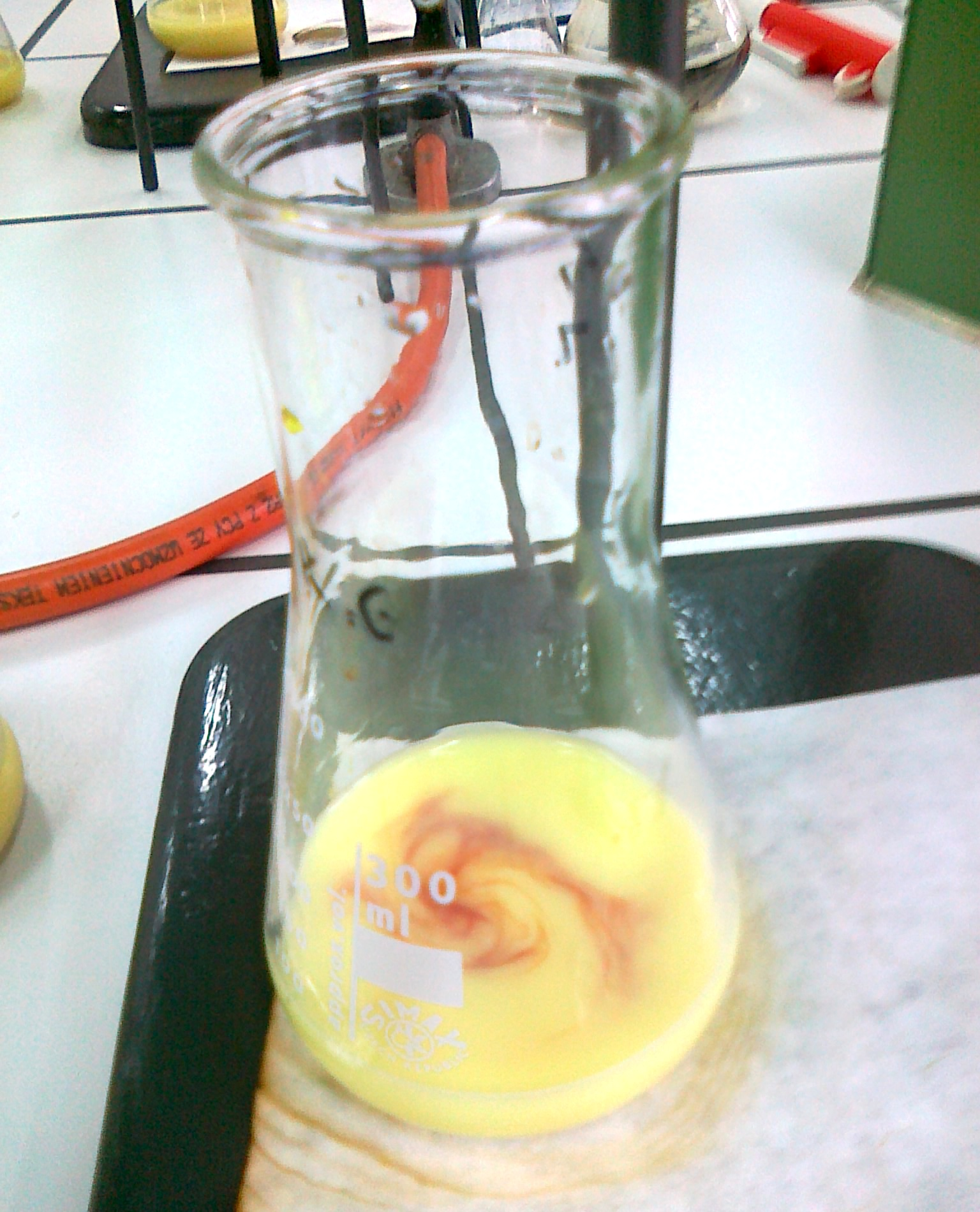 Argentometry Mohr method titration using silver nitrate as a titrant and potassium chromate as an indicator